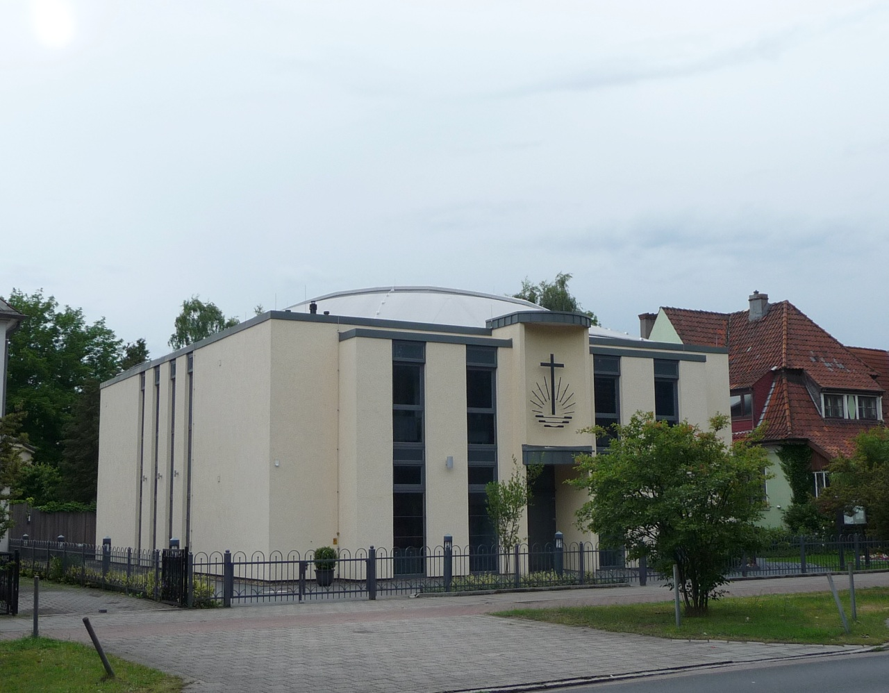 Church in Bremen-Sebaldsbrueck